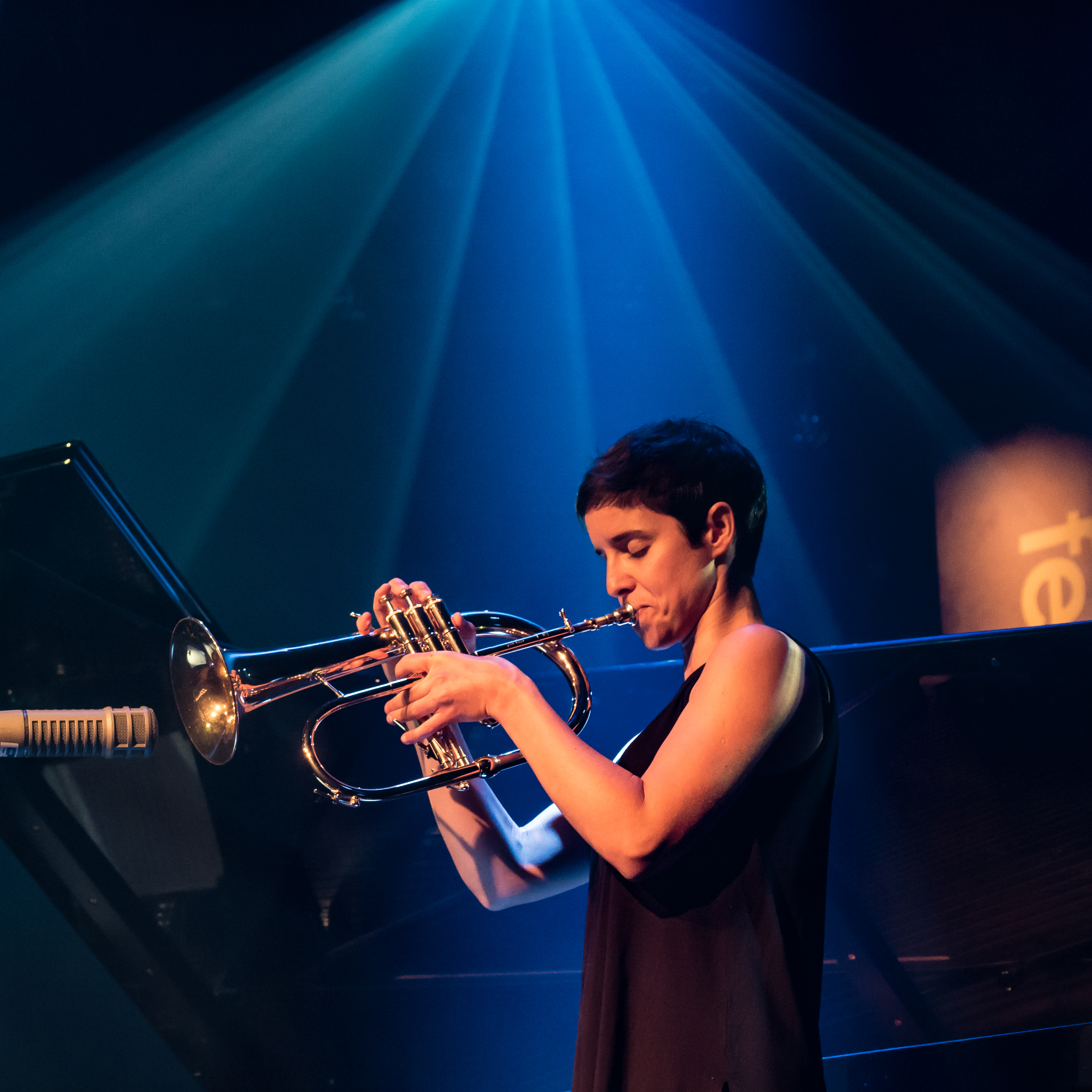 Portuguese trumpeter Susana Santos Silva at the Moers Festival 2016